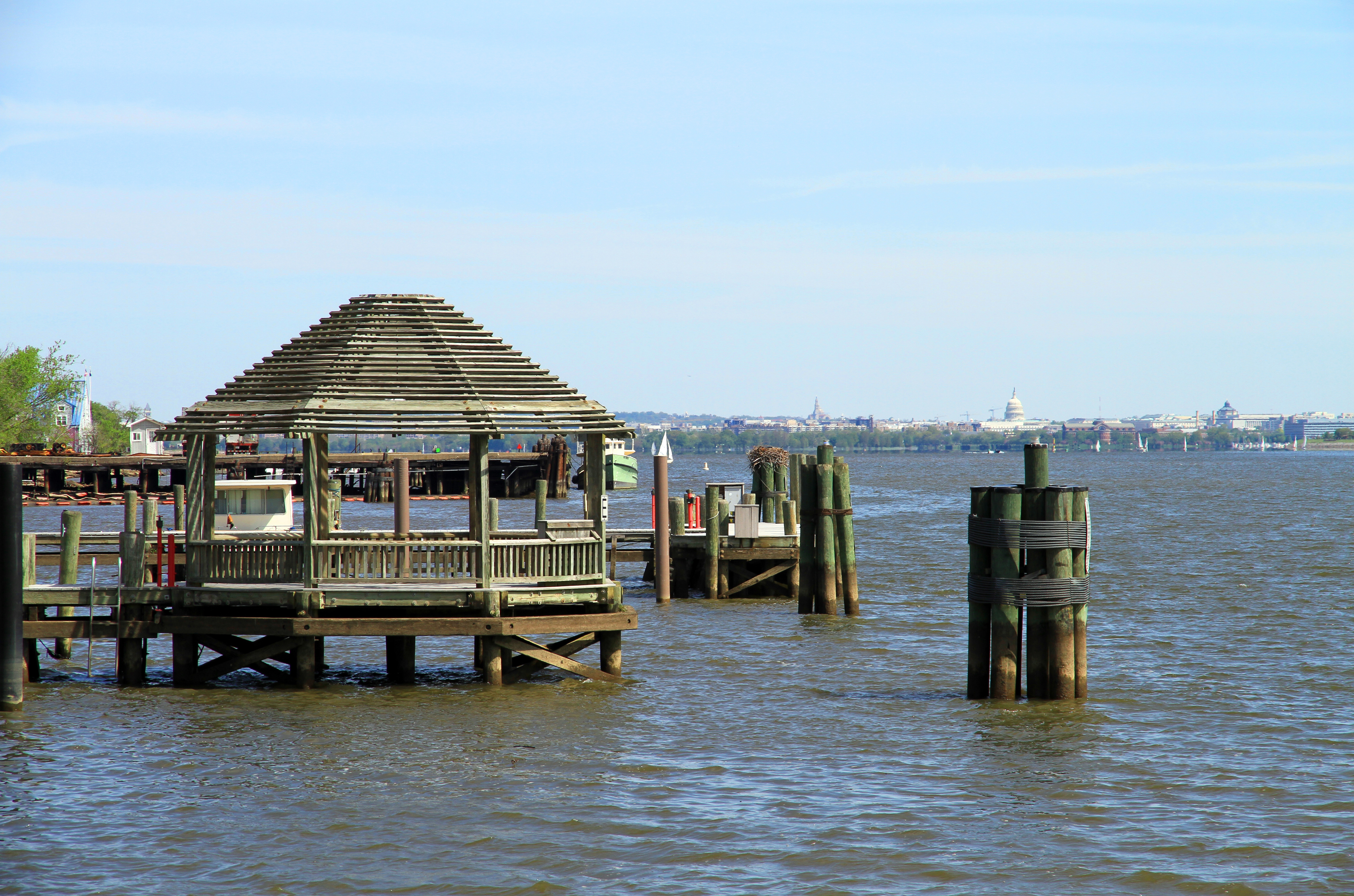 Alexandria-Potomac River